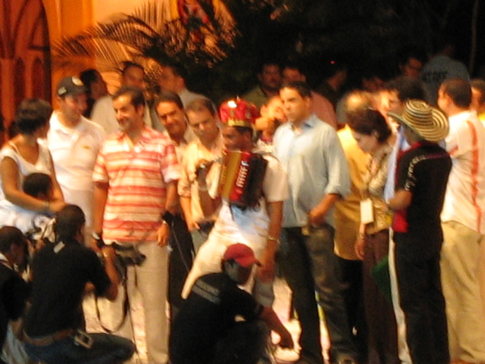 Hugo Carlos Granados Rey de Reyes 2007